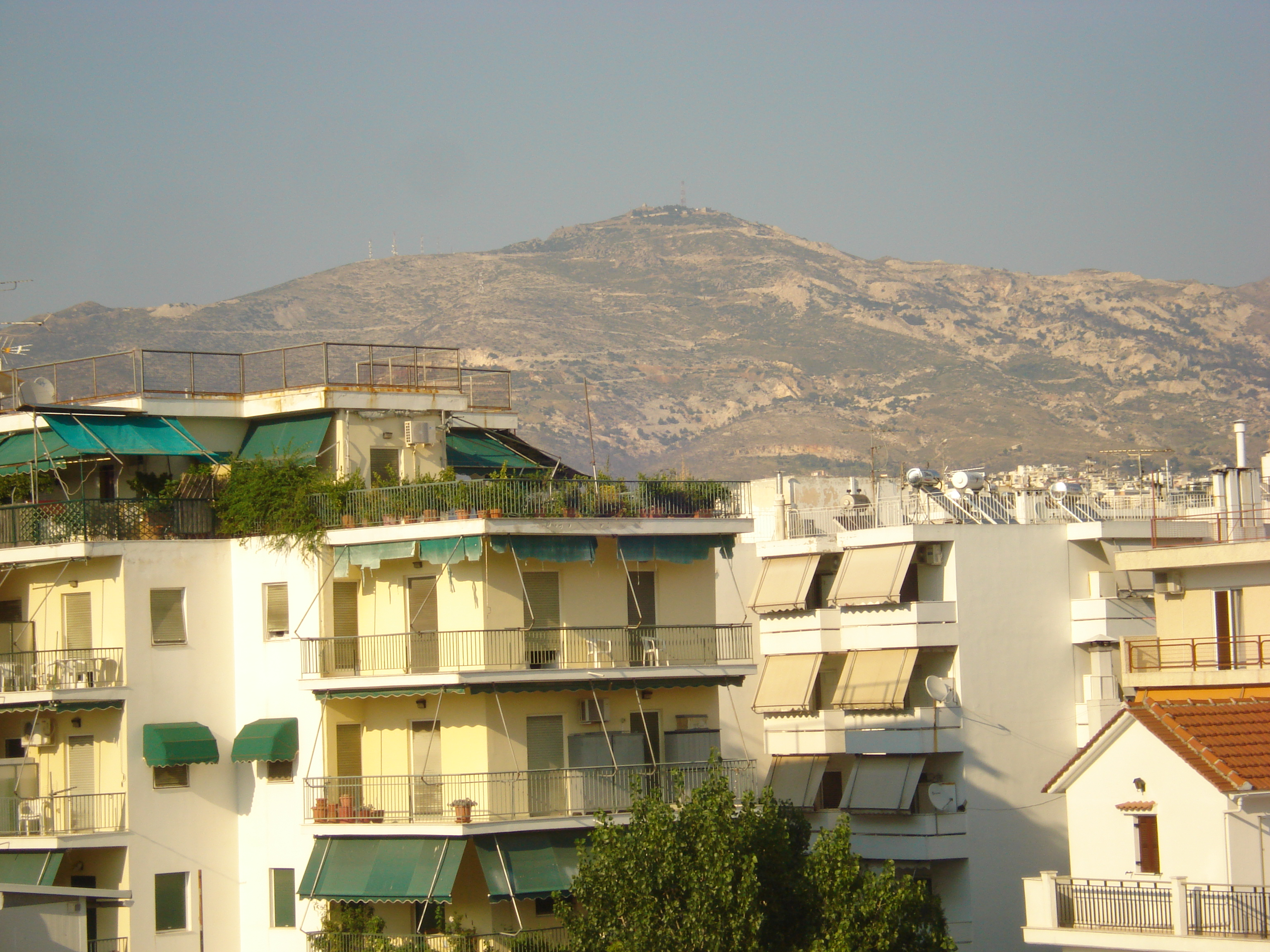 Mont Pentelic from Marousi, summer 2010.